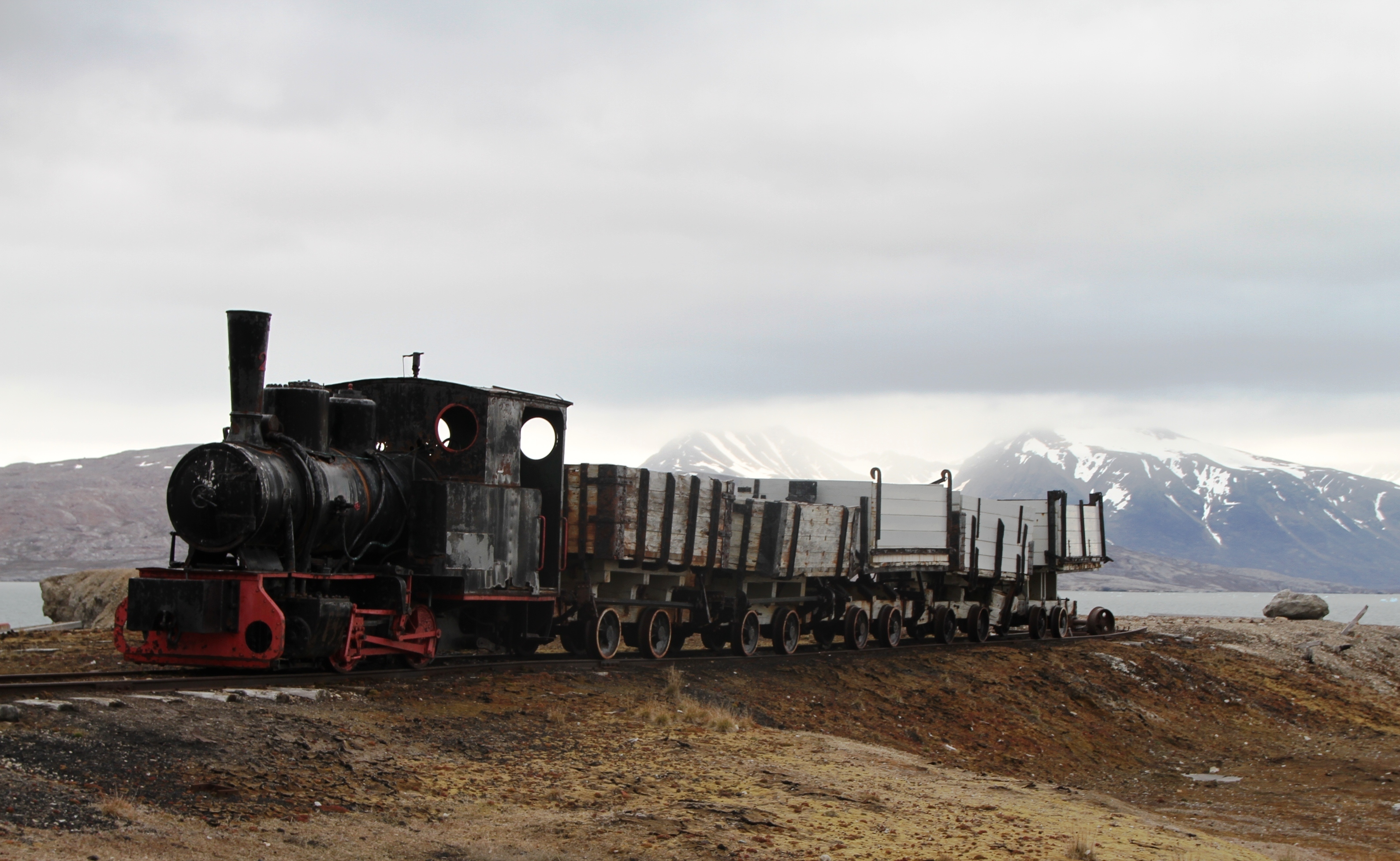 Scene from Ny-Ålesund, the 79* north mining and science community at northwestern Spitsbergen, Svalbard (Norway). Coal mines were abandoned in 1963.